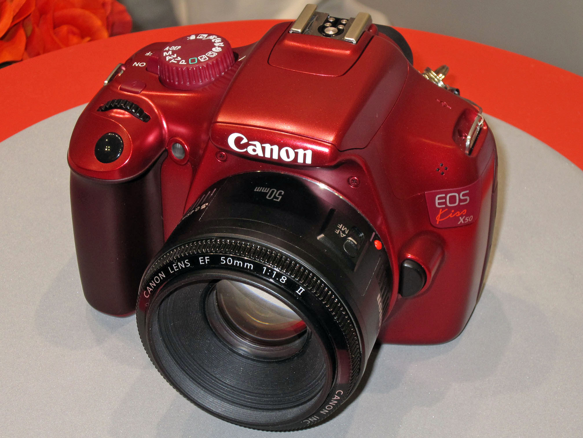 Canon EOS Kiss X50 (Canon EOS 1100D) Red model with EF 50mm f/1.8 II at CP+ 2011 Canon Booth (Pacifico Yokohama), Nishi-ku, Yokohama, Kanagawa, Japan.